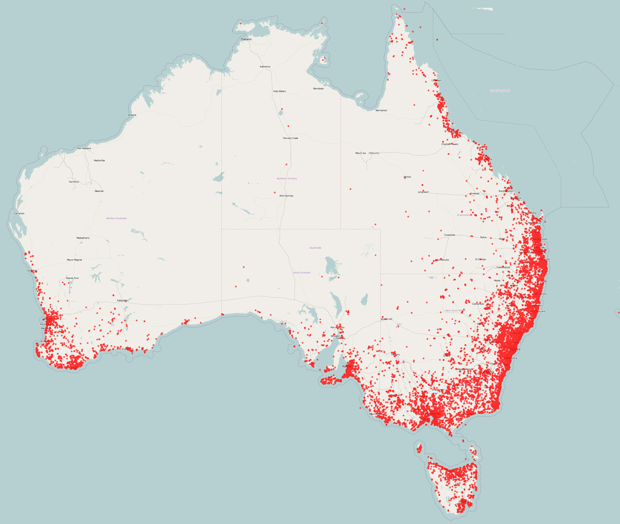 Adapted from the Atlas of Living Australia. Data from: 'Birdata: 21,366 records DECCW Atlas of NSW Wildlife: 7,341 records Eremaea: 2,965 records South Australia Fauna Observations: 639 records Australian Museum provider for OZCAM: 274 records Museum Victoria provider for OZCAM: 215 records Australian National Wildlife Collection provider for OZCAM: 169 records Western Australian Museum provider for OZCAM: 72 records Tasmanian Museum and Art Gallery provider for OZCAM: 39 records Kangawalla Bird Sightings: 25 records QLD Coastal Bird Atlas: 17 records Fauna Atlas N.T.: 7 records Butterflies of Gordon Park: 2 records EOL Flickr Group: 1 records Individual Sightings: 1 records'